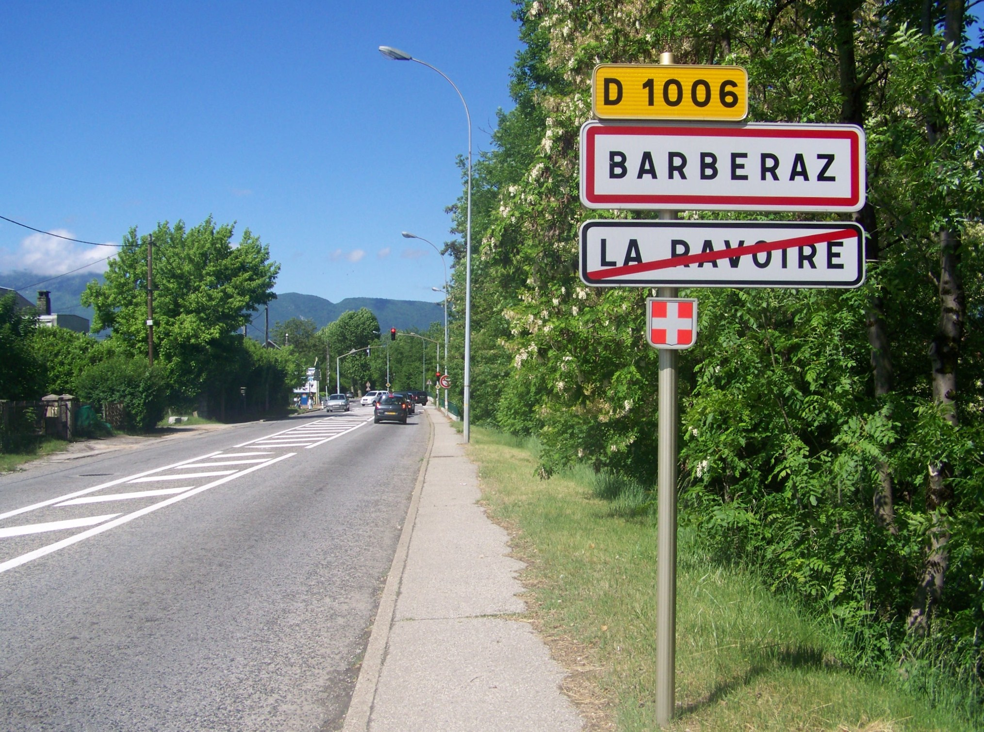 Roadsign of French commune Barberaz near Chambéry in Savoie.